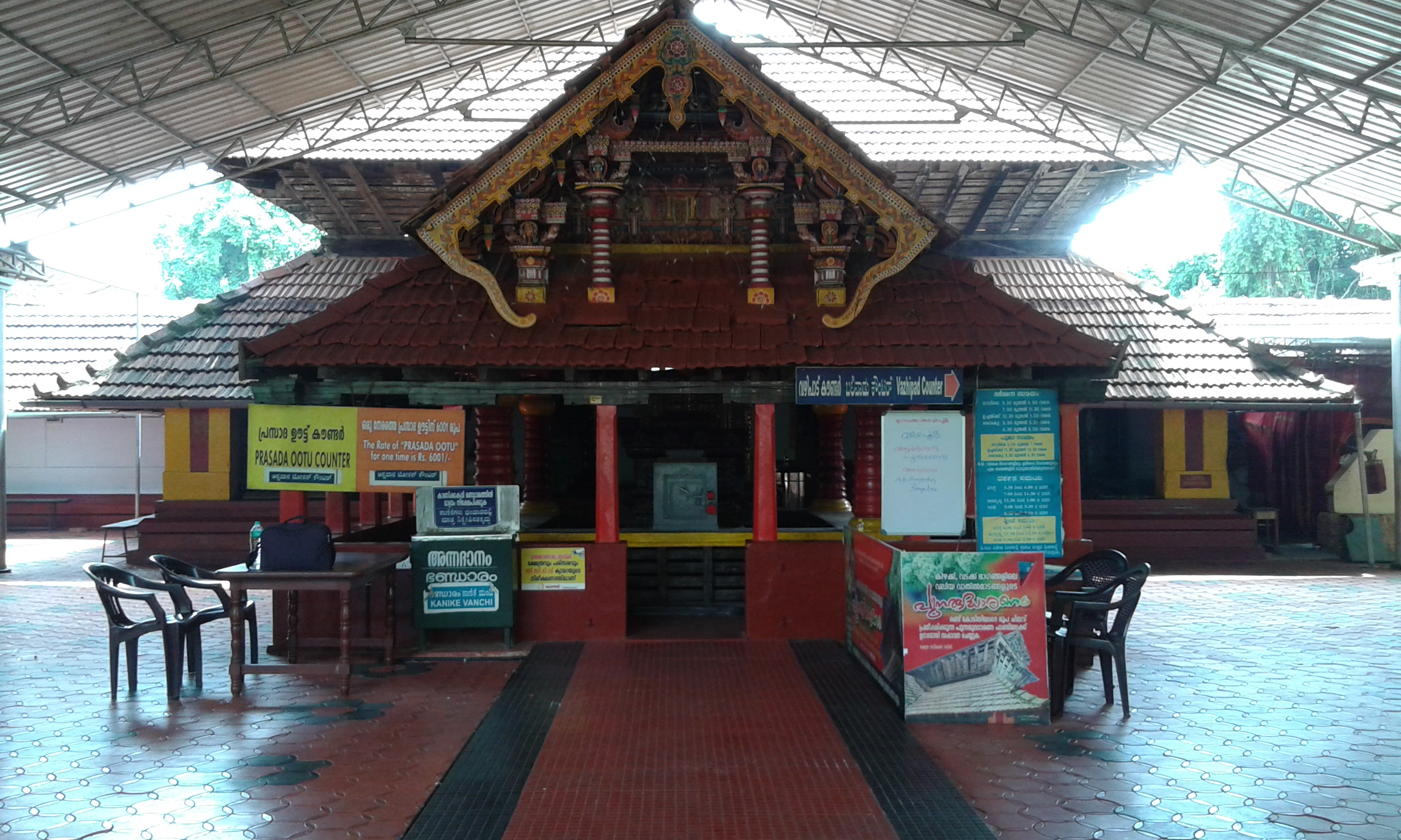 Front entrance of Madayikkavu, Pazhayangadi, Kannur